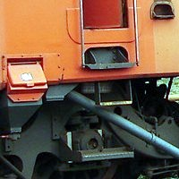 Narrow stirrup on Class 6E1 Series 3 no. E1345Location: Koedoespoort, Pretoria, Gauteng